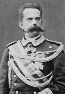 King Umberto I di Savoia, 1882.